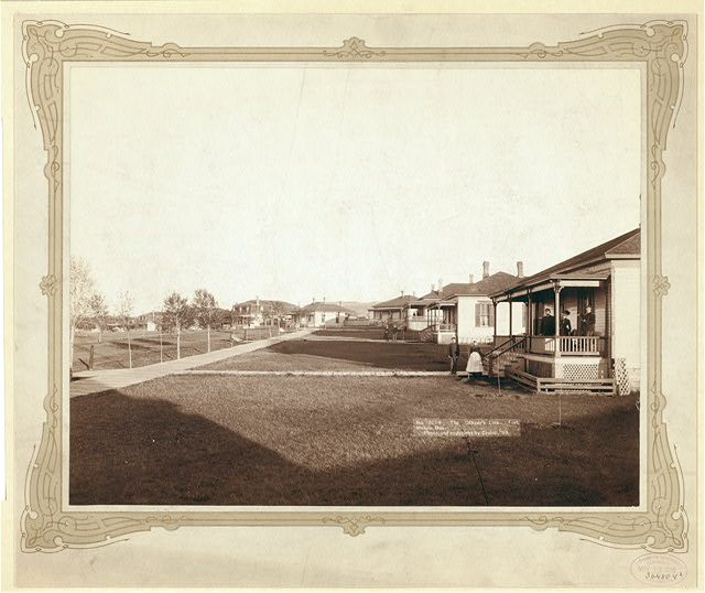 Homes, lawns and a few military men in residential area, Fort Meade, South Dakota.